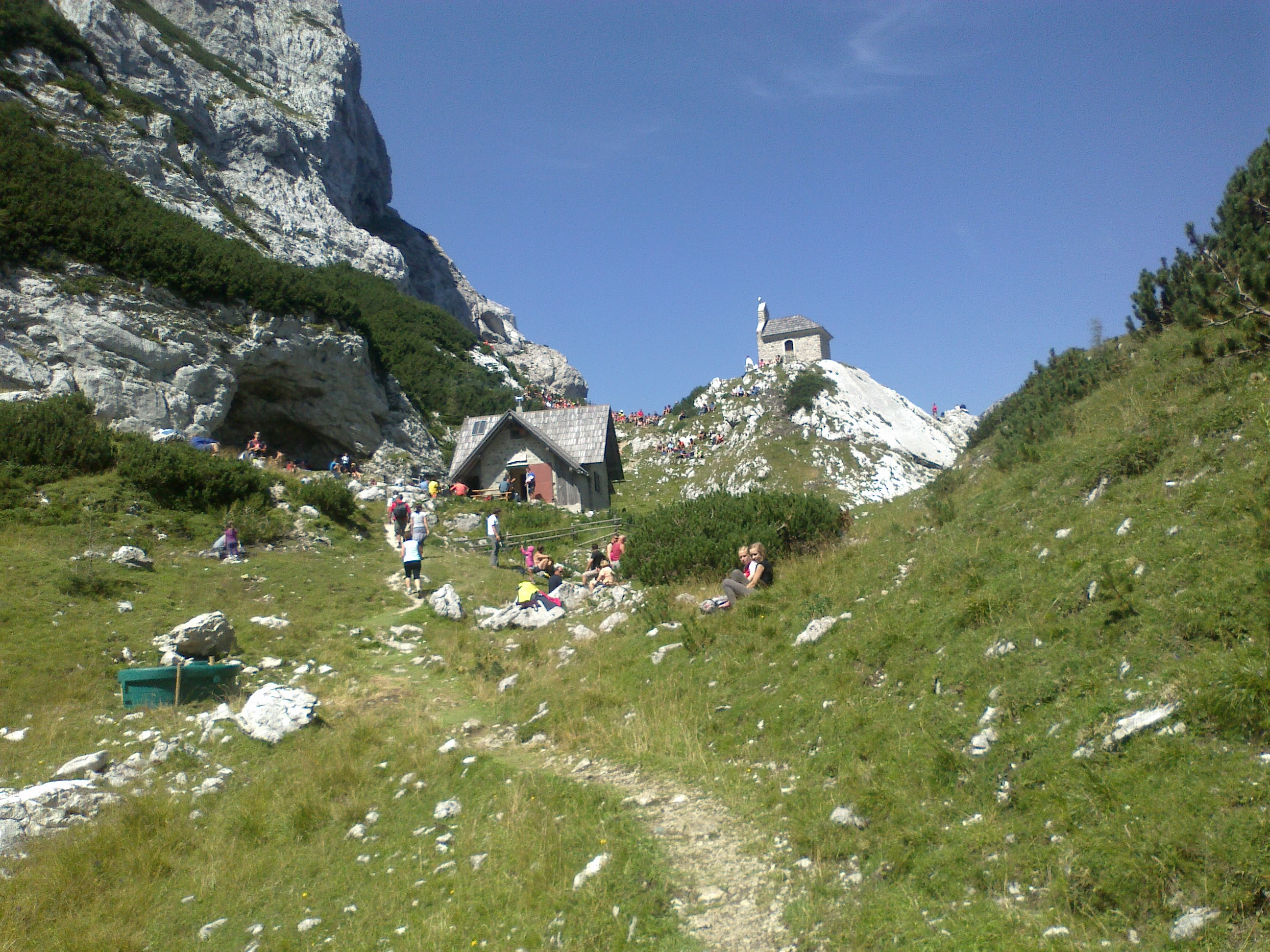 Molič Pasture, 1829 m. The Dleskovec Plateau in the Kamnik–Savinja Alps, northern Slovenia. In the front, Kocbek Refuge, first built in 1894 and rebuilt (after a snow slide in 1994) in 1999. In the background, Sts. Cyril and Methodius Chapel, built according to plans of the architect France Kvaternik in 1989 and consecrated on 8 July 1990. The celebration of the Holy Mass on the Feast of the Assumption of the Blessed Virgin Mary (15 August).